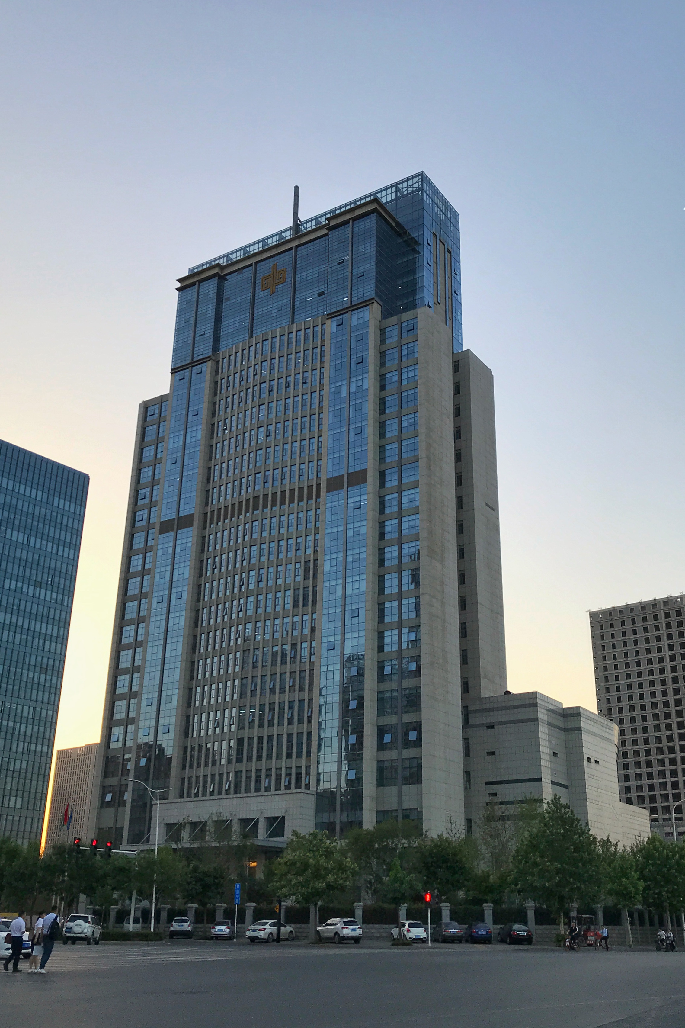 Office building of Zhengzhou Metro Group